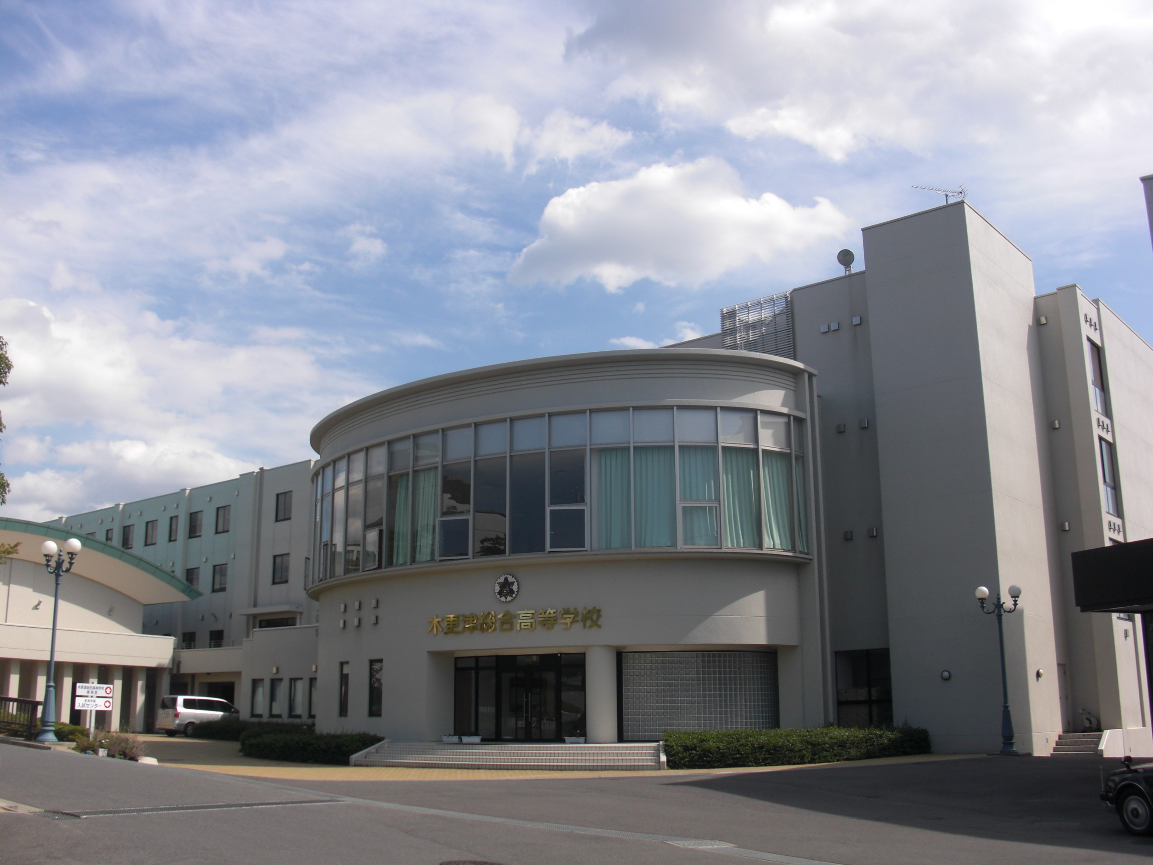 This is a high school in Kisarazu, Chiba, Japan.